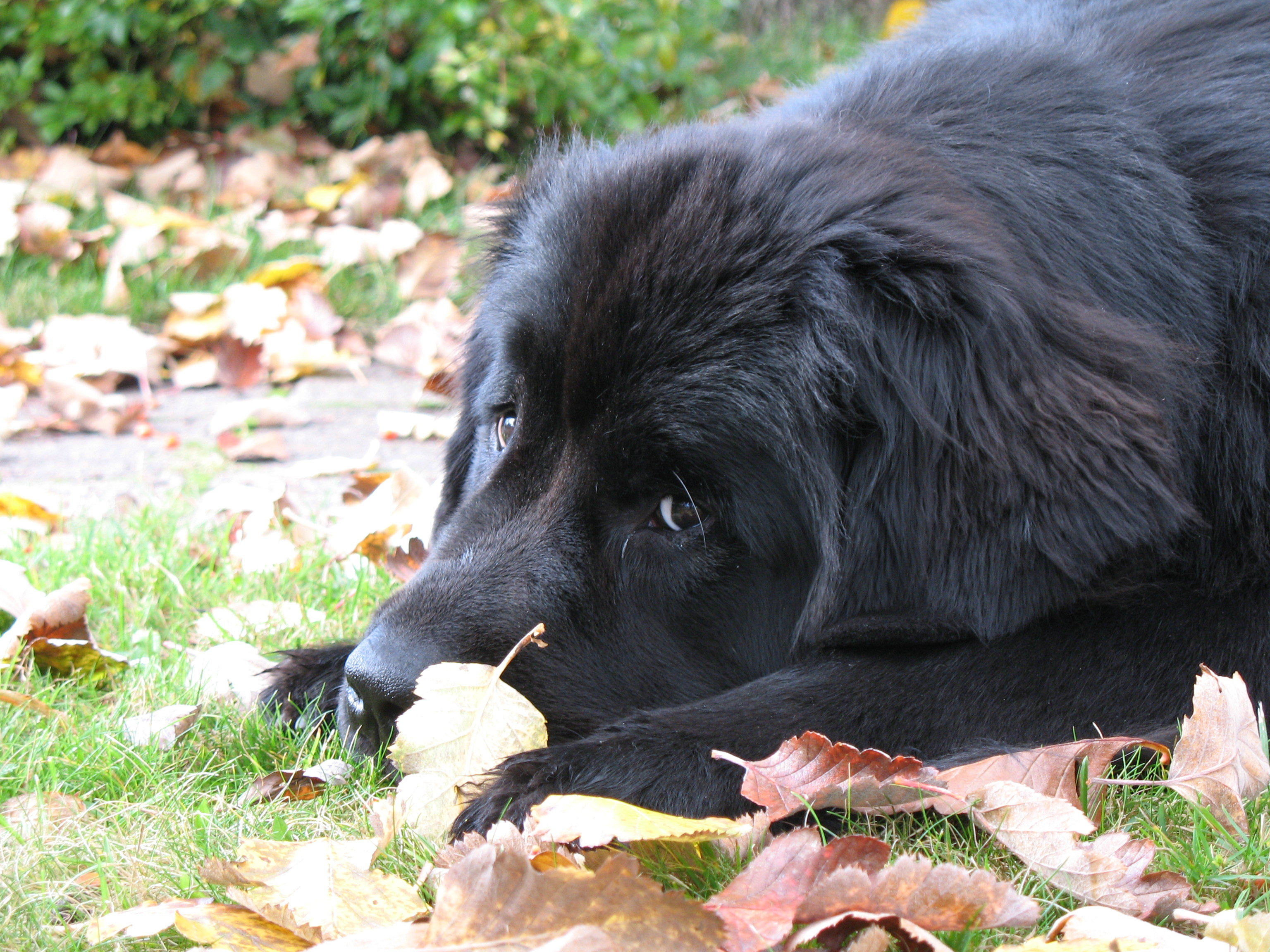 Newfoundland puppy